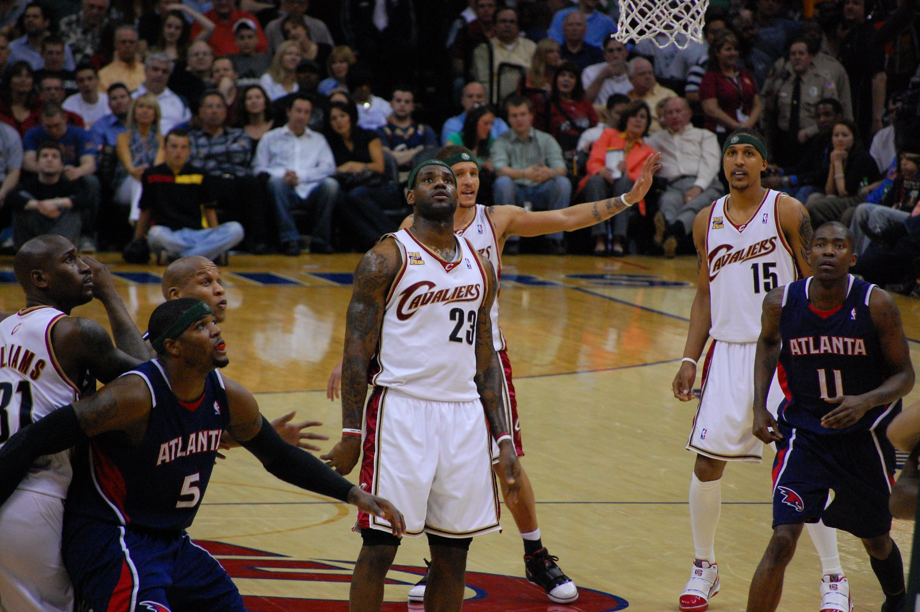 LeBron James watches as his free throw goes up. Also in the photo: Jawad Williams (far left), Josh Smith (5), Delonte West (behind James), Jamario Moon (15), Jamal Crawford (11).